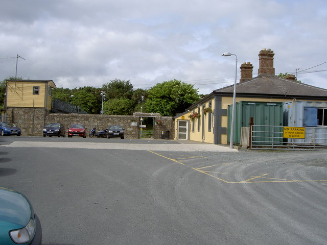 Wicklow Railway Station Wicklow railway station is on the Dublin-Rosslare line and sees intercity services to Rosslare Europort, commuter trains to Gorey and approximately 4-5 trains a day towards Dublin.